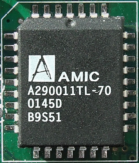 AMIC Technology A290011TL-70 EEPROM flash memory IC.